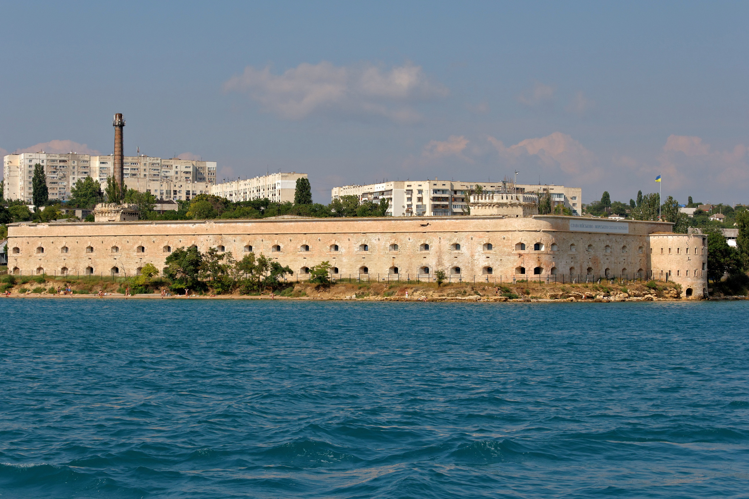 Sevastopol. Mikhaylovskaya battery